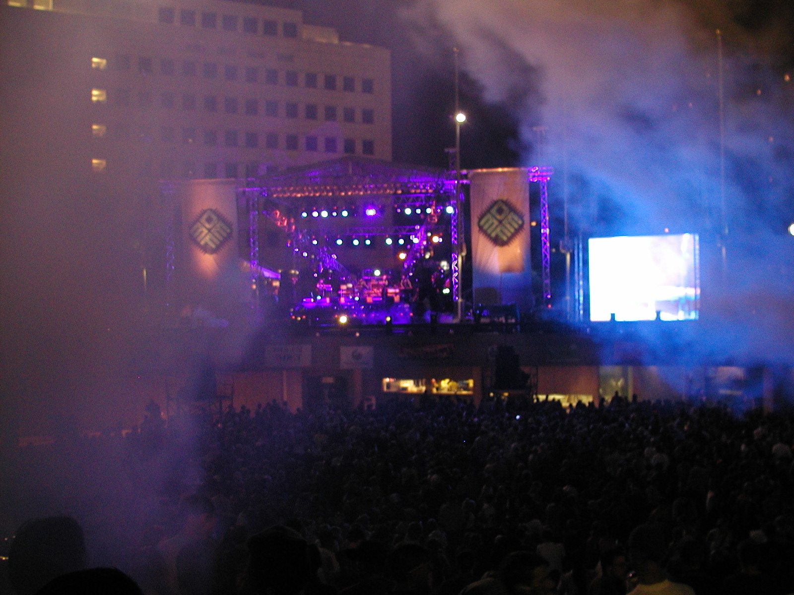 The main stage of Detroit Electronic Music Festival 2002. Taken from the amphitheater rim, shows some of the crowd